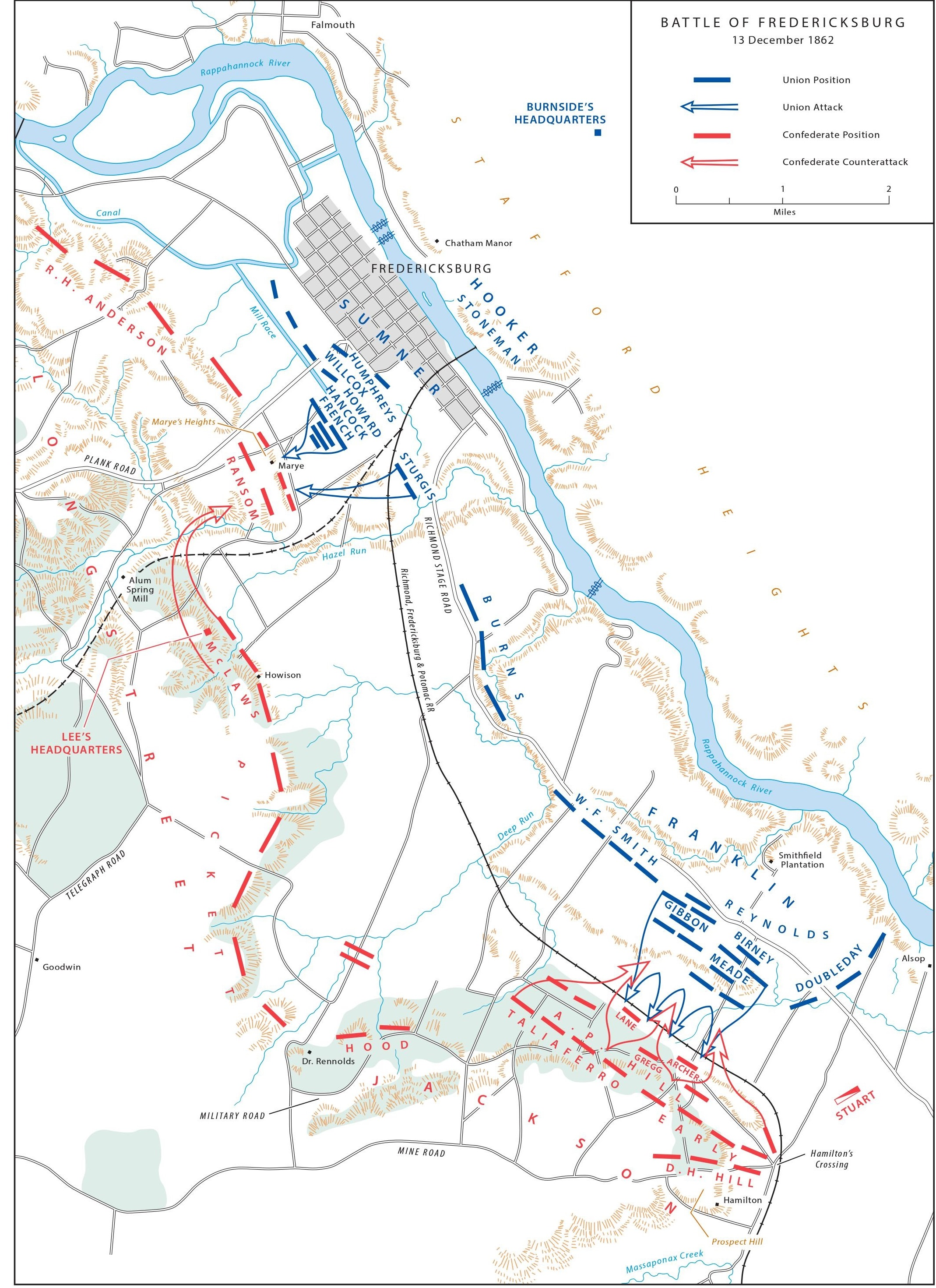 Battle of Fredericksburg, 13 December 1862 (overview).